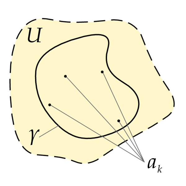 Illustration of residue theorem